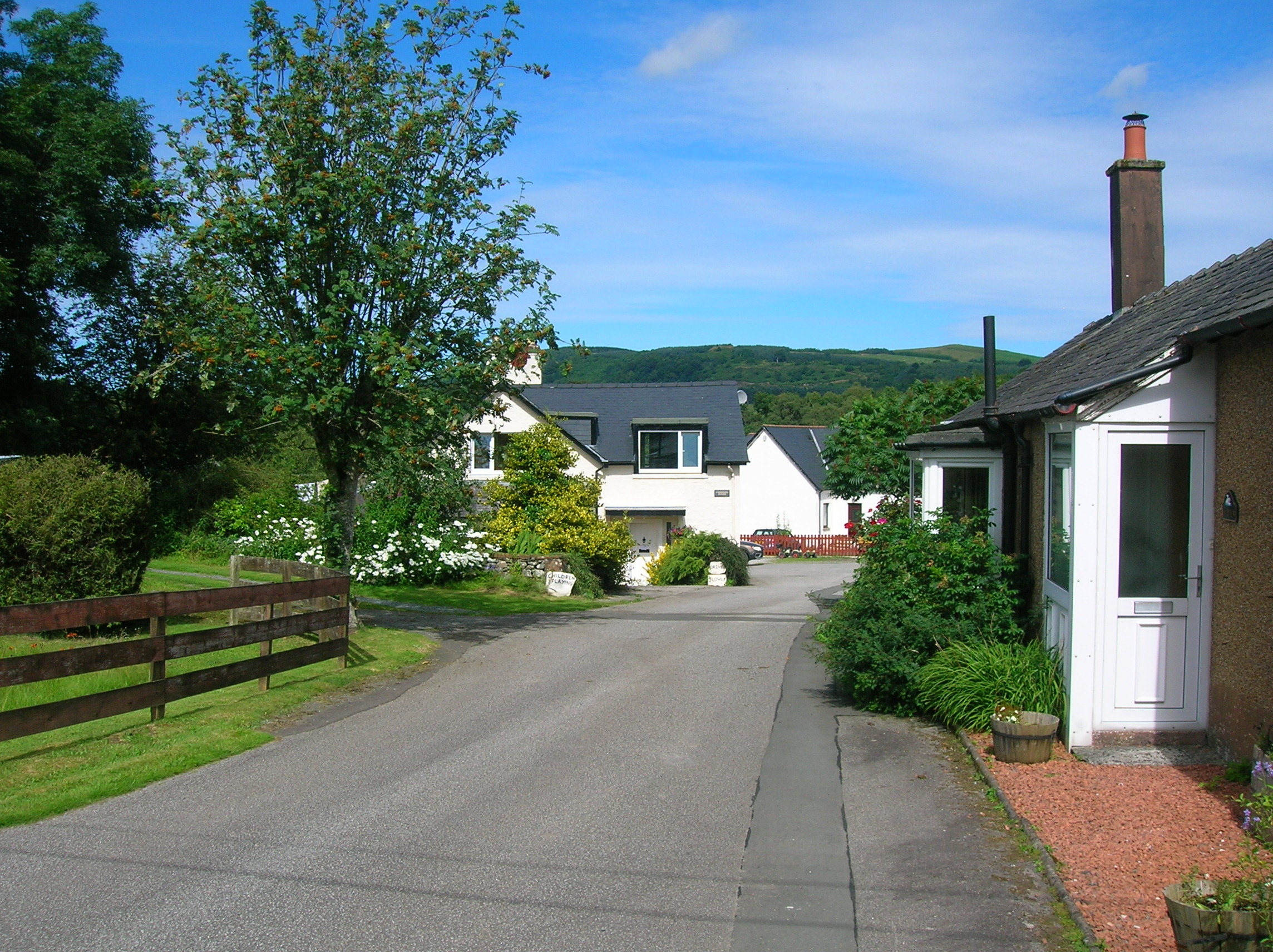 Carsemill, Auldgirth, Dumfries & Galloway, Scotland.